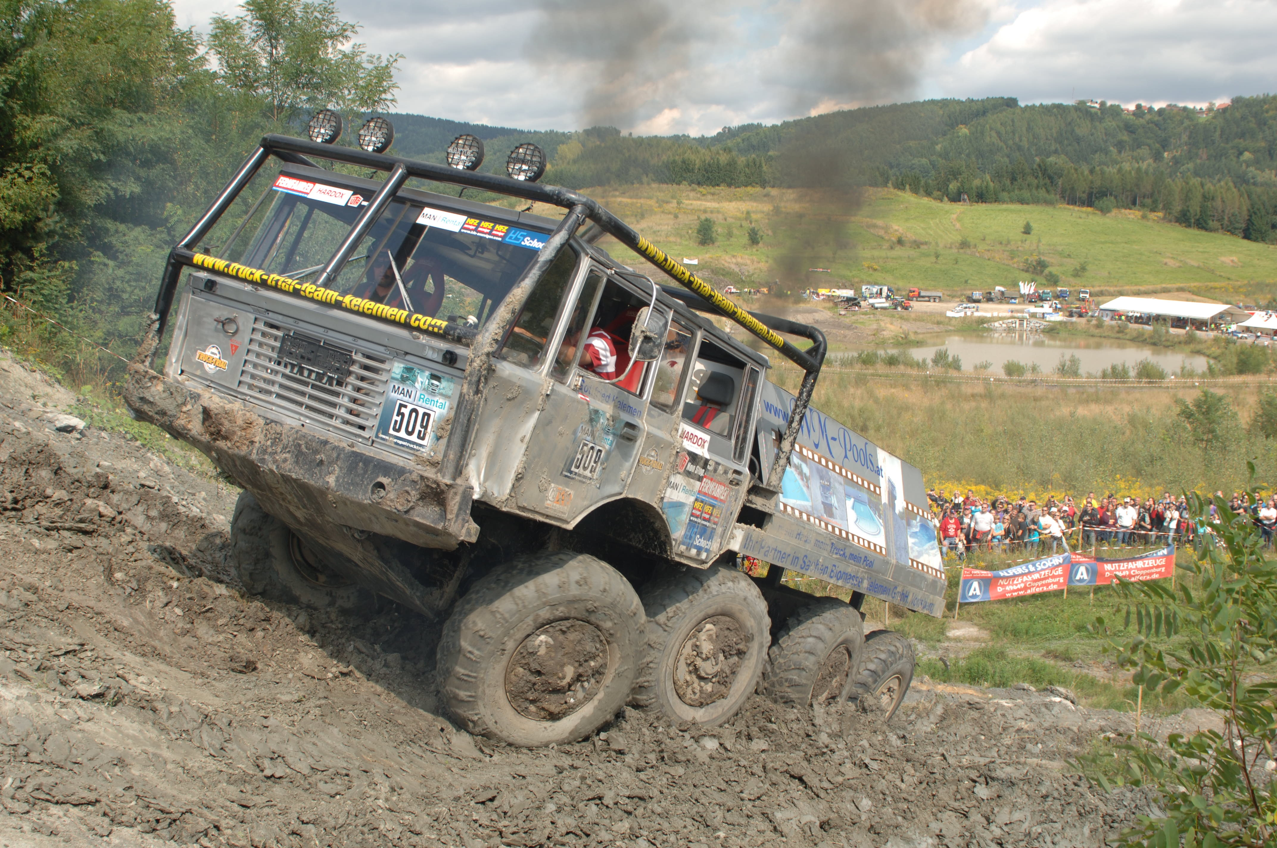 a truck-trial-modified Tatra 813 during a Truck-trial competition at the old open pit Zangtal near Voitsberg, Styria, Austria